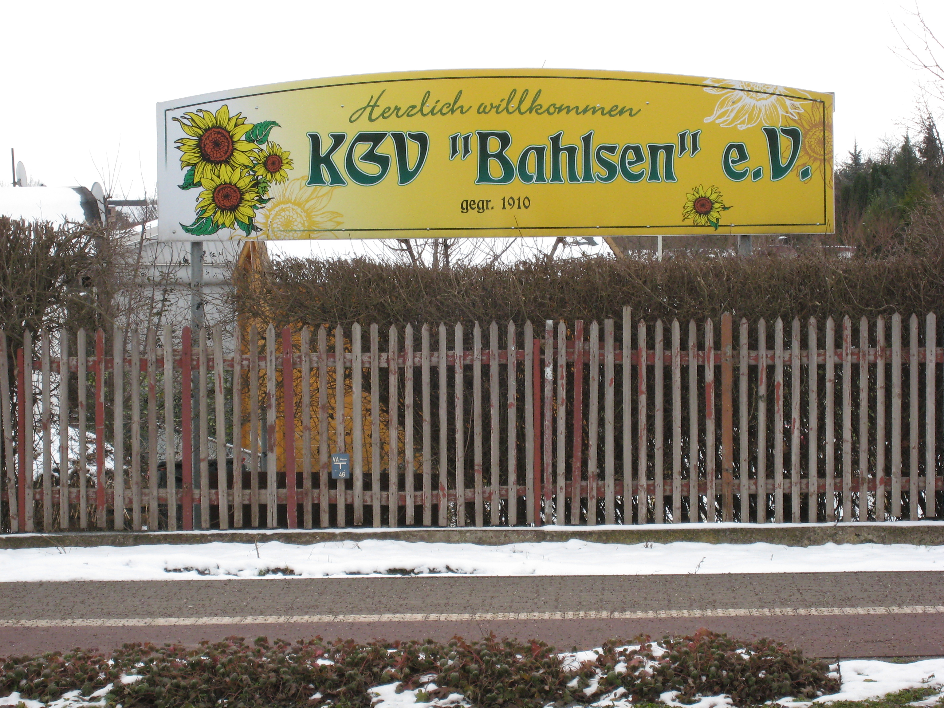 Bahlsen allotments in Arnstadt, Ichtershäuser Straße